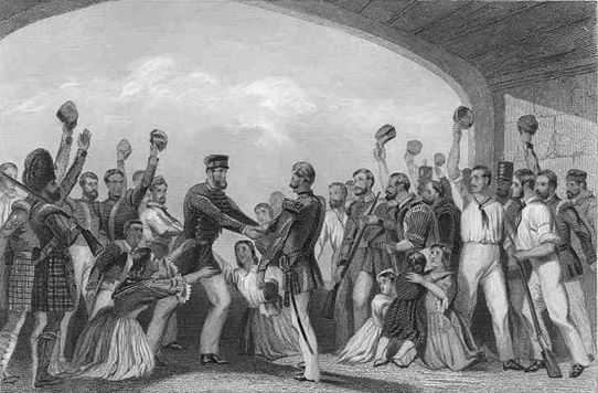 "THE RELIEF OF LUCKNOW BY GENERAL HAVELOCK. Revolt of the Native troops at Lucknow May 30th 1857 - The Residency invested by the rebels June 29th - Relieved by General Havelock Septr. 25th, again surrounded Septr. 26th - Finally relived by Sir Colin Campbell, Nov. 17th" Engraving, 1858. Steel engraving from The History of the Indian Mutiny. [1]. Book by Charles Ball.